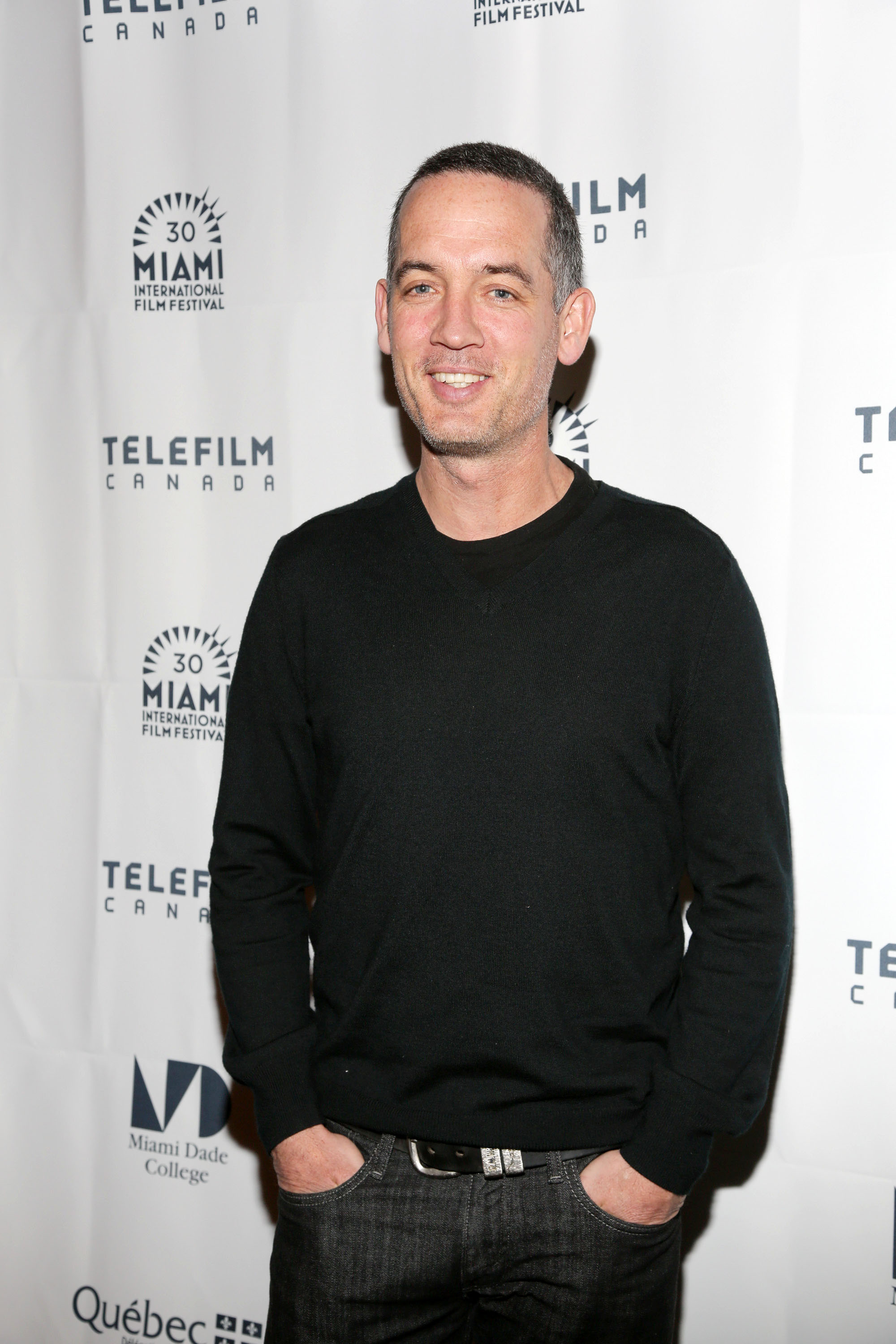 Michael McGowan at the 2013 Miami International Film Festival Happy Hour hosted by Telefilm Canada at The Standard Spa, Miami Beach on March 2nd, 2013